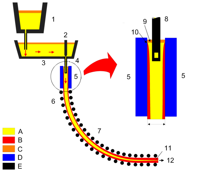 The continuous casting process. Key: 1. Ladle 2. Stopper 3. Tundish 4. Shroud 5. Mold 6. Roll support 7. Turning Zone 8. Shroud 9. Bath level 10. Meniscus 11. Withdrawal unit 12. Slab A. Liquid metal B. Solidified metal C. Slag D. Water-cooled copper plates E. Refractory material